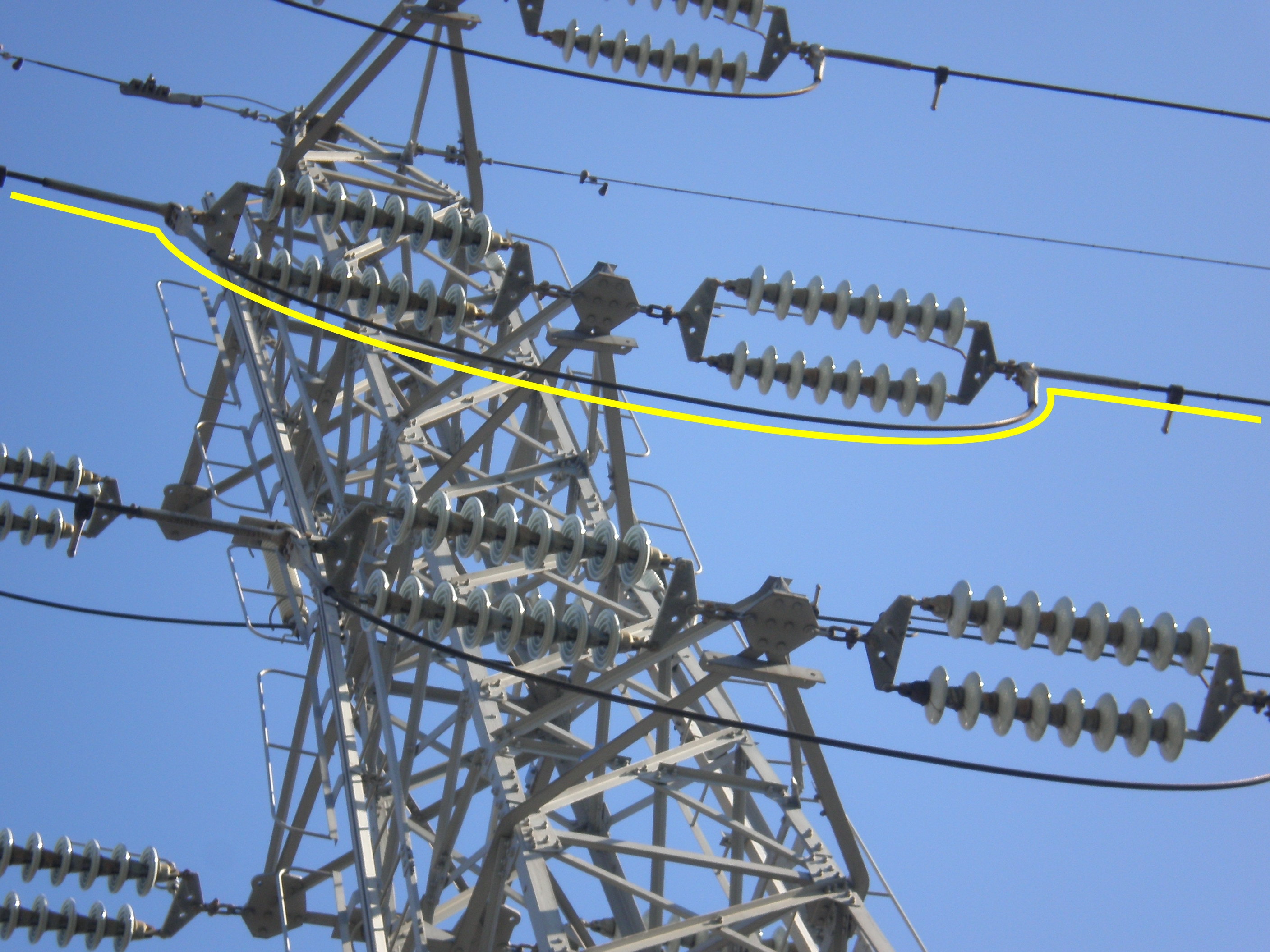 Insulators on a dead-end electricity pylon